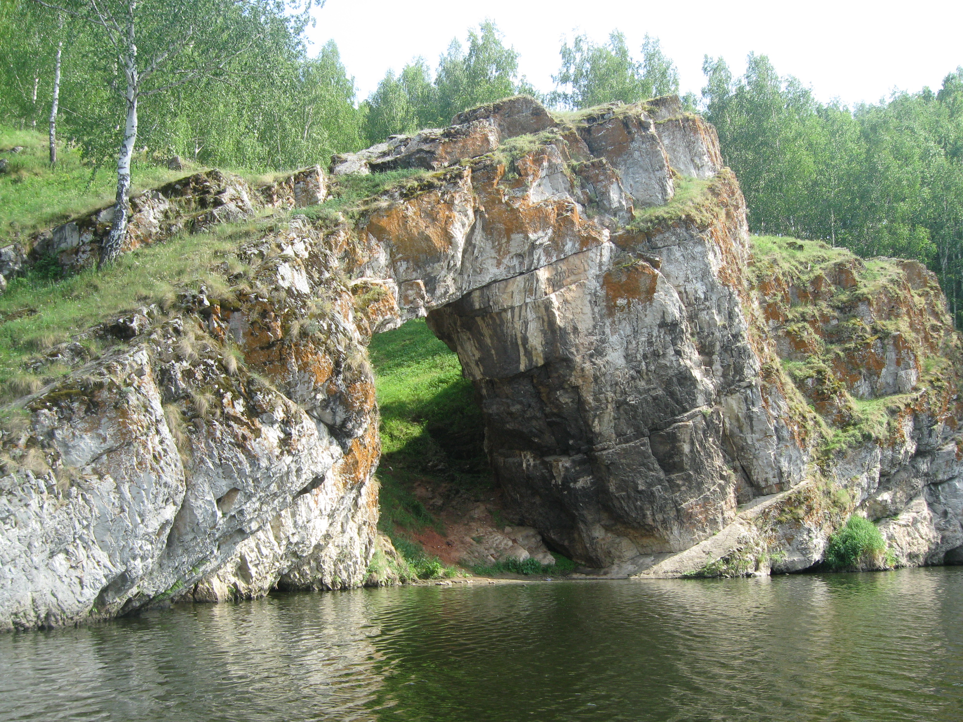 Stone Gate on Iset River, Sverdlovsk oblast, Russia This image is related to the protected area of Russia number 6610292